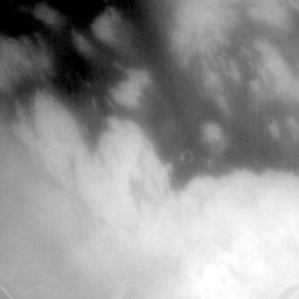 Closer view of Titan's surface. Courtesy NASA/JPL-Caltech